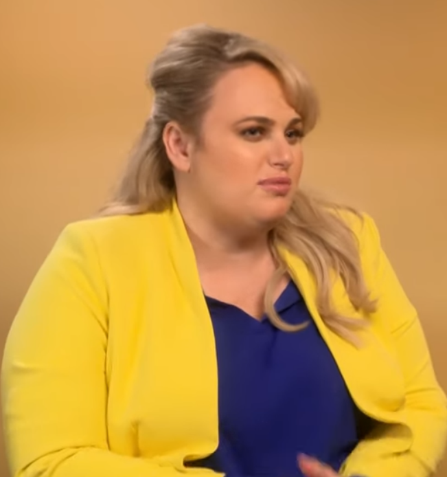 The Hustle star Rebel Wilson reveals exciting goss about the new Cats movie, talks Pitch Perfect sequels and an Ocean’s 8 The Hustle Crossover.